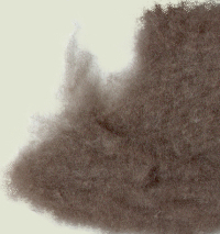 A picture of some qiviut fur.